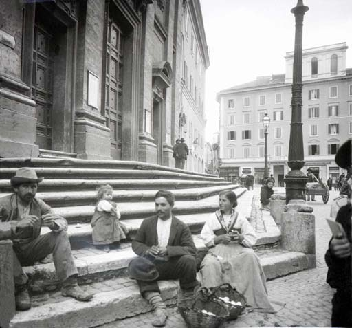 On Church Steps (Rome)(San Carlo ai Catinari)